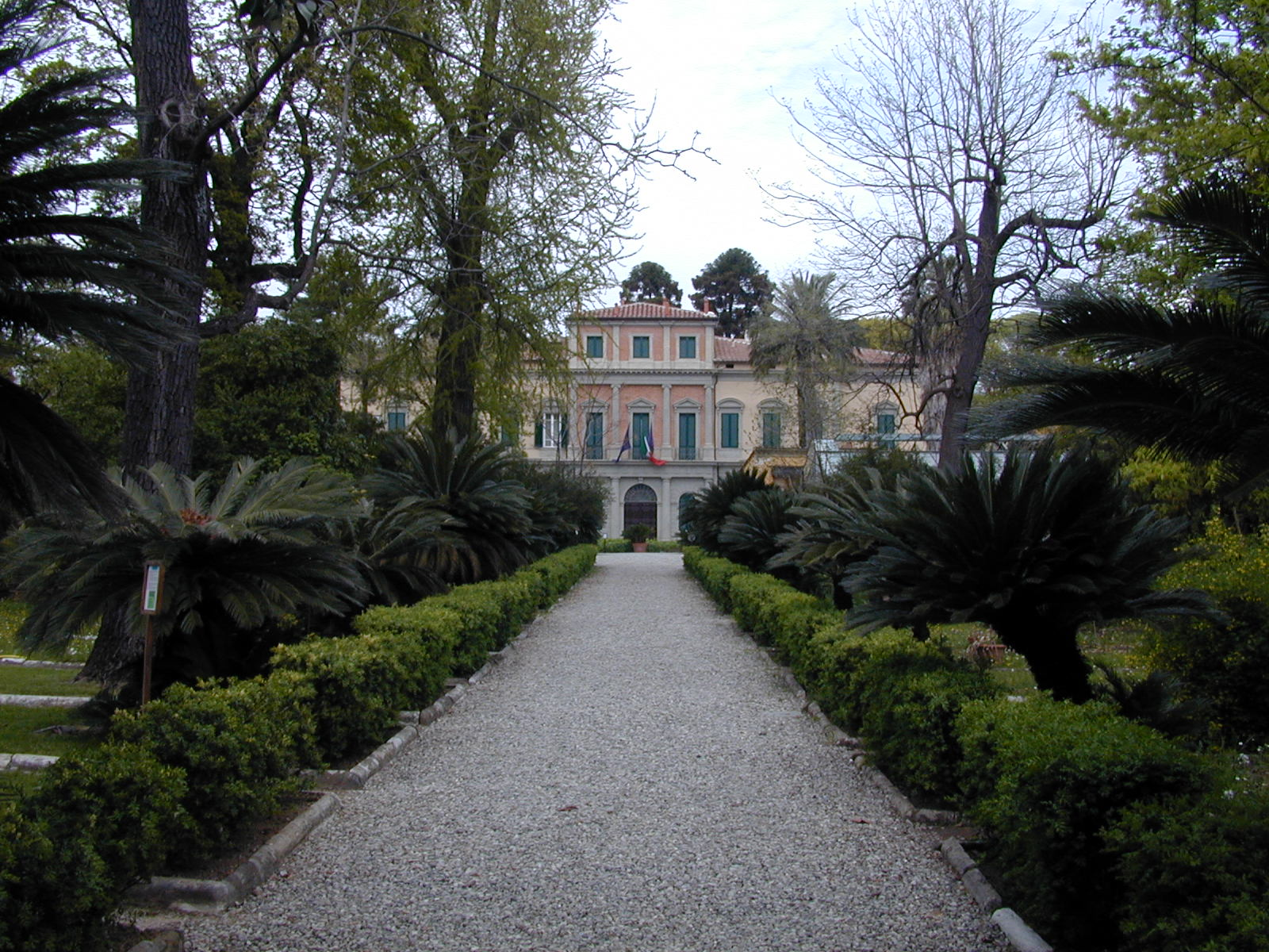 Photo of Pisa botanical garden.